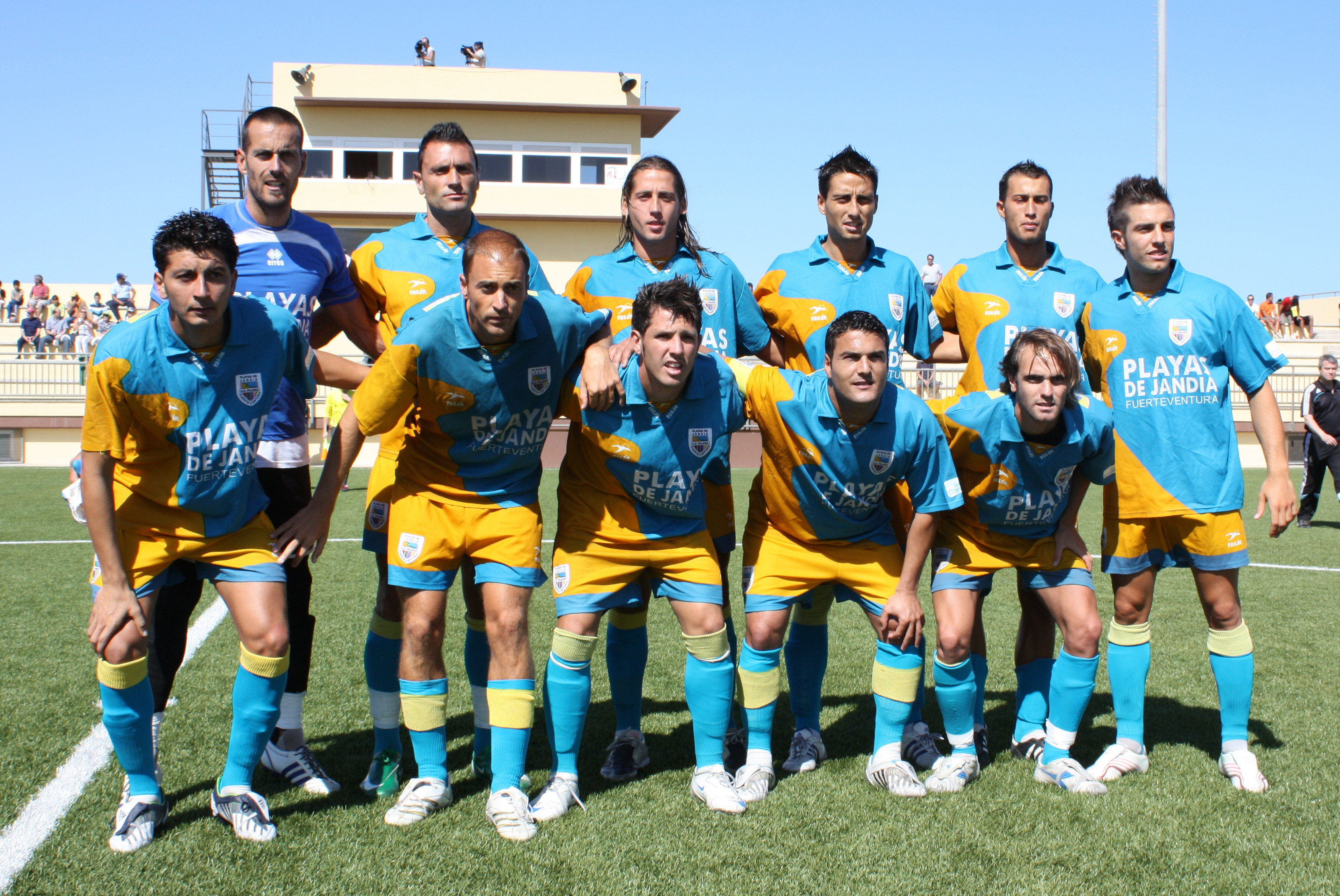 Pajara Playas De Jandia who play in the Segunda Division B of the Spanish Football League